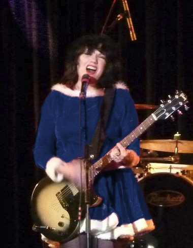 A picture of Martha Davis and the Motels in 2011.